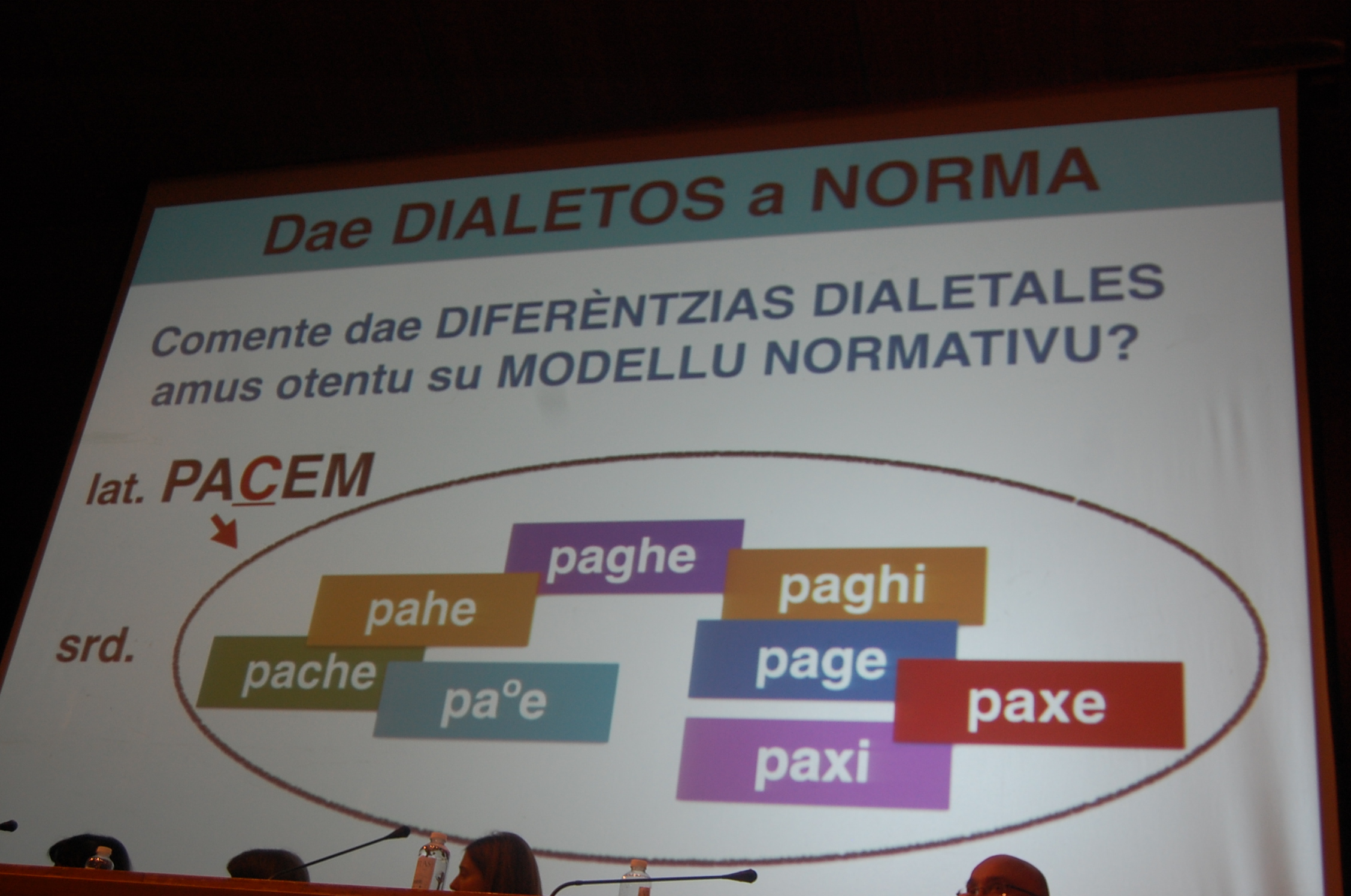 Corpus planning in Sardinian : local orthographies of the word "peace"